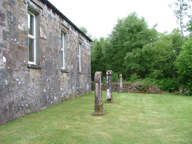 Church and Graveyard At the Free Church of Scotland at Lochdon.